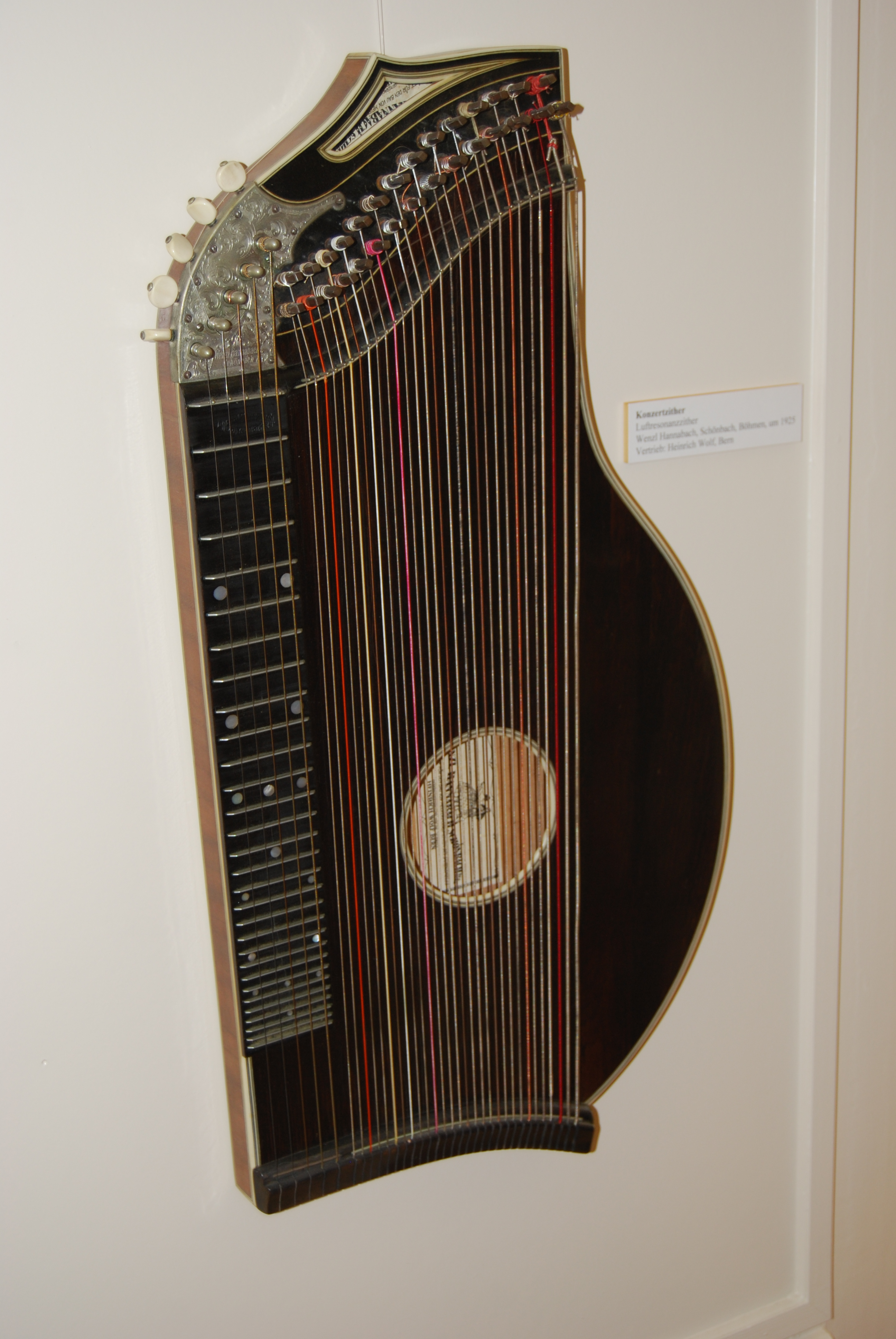 Swiss Zither Culture Centre at Trachselwald, canton of Bern, Switzerland